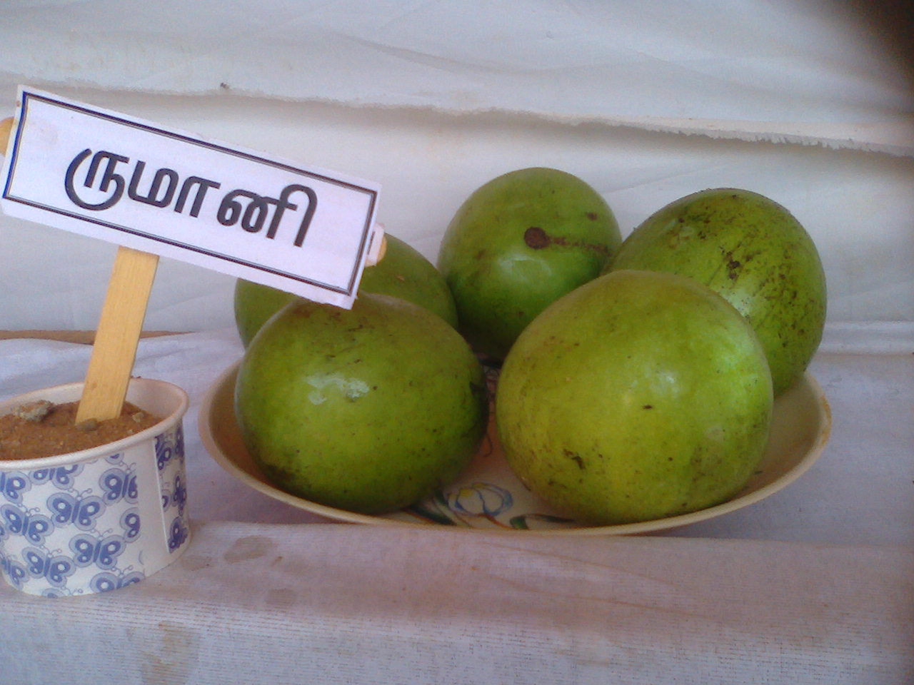 ருமானி மாம்பழம்